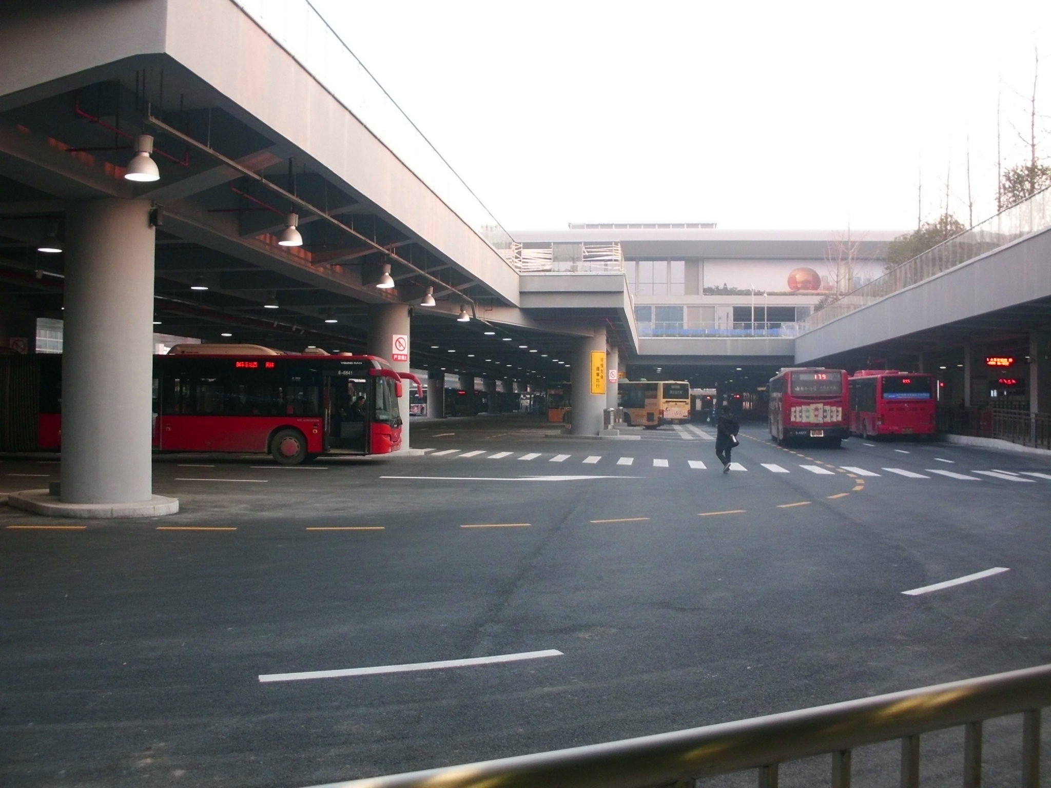 Hangzhoudong Railway Station